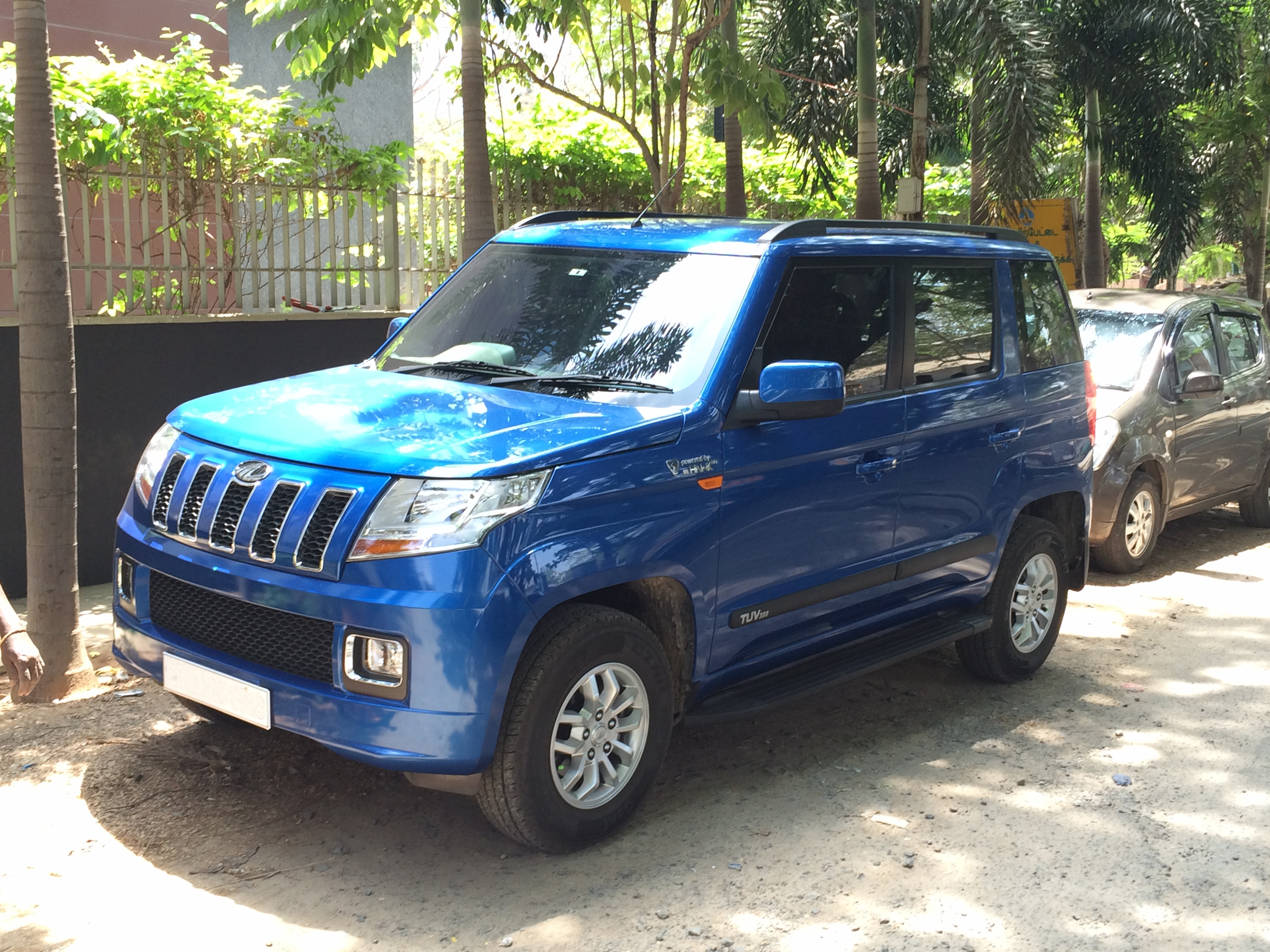 Mahindra TUV 300 in Chennai, 2016